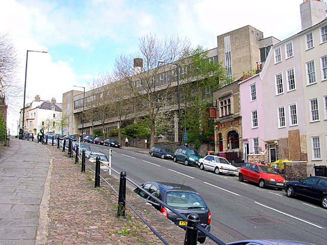 St Michael's Hospital. St Michael's is at the top of St Michael's hill. It is the maternity department which always seems rather cruel having it at the top of such a steep hill.